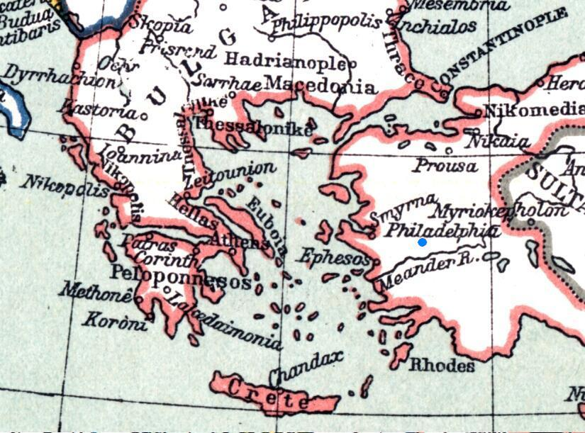 Filadelfia w XII w